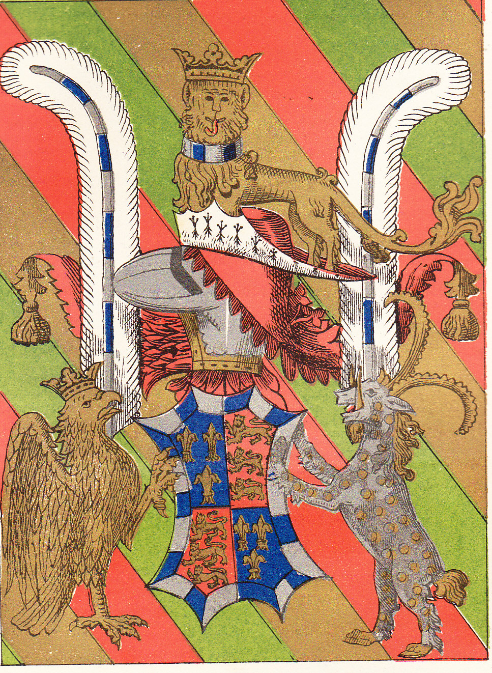 Heraldic achievement of John Beaufort(d.1444), 1st Duke of Somerset, KG, shown in his Garter plate, St George's Chapel, Windsor. Blazon: ARMS. Quarterly, France and England within a bordure gobonne argent and azure. CREST. (On a cap of maintenance turned-up ermine) A lion statant regardant and ducally crowned or (langued gules) gorged with a collar gobonne same as the bordure of the arms. SUPPORTERS. Dexter, an eagle ducally crowned or, sinister an ibex or antelope argent bezantée attired hoofed maned and tusked or (the Beaufort Yale). HELM. (Argent and) Or, with mantling of crimson velvet on which may be distinguished two sprigs of trefoil. On either side in pale a large ostrich feather argent quilled gobonne as the bordure of the arms. FIELD. The whole upon a field bendy or gules and vert and bordered with foliage. Source: Planche, J.R., Pursuivant of Arms, 1851, frontispiece & blazon p.xx (description of cap of maintenance omitted, argent added to descr. of helm & crest langued gules)